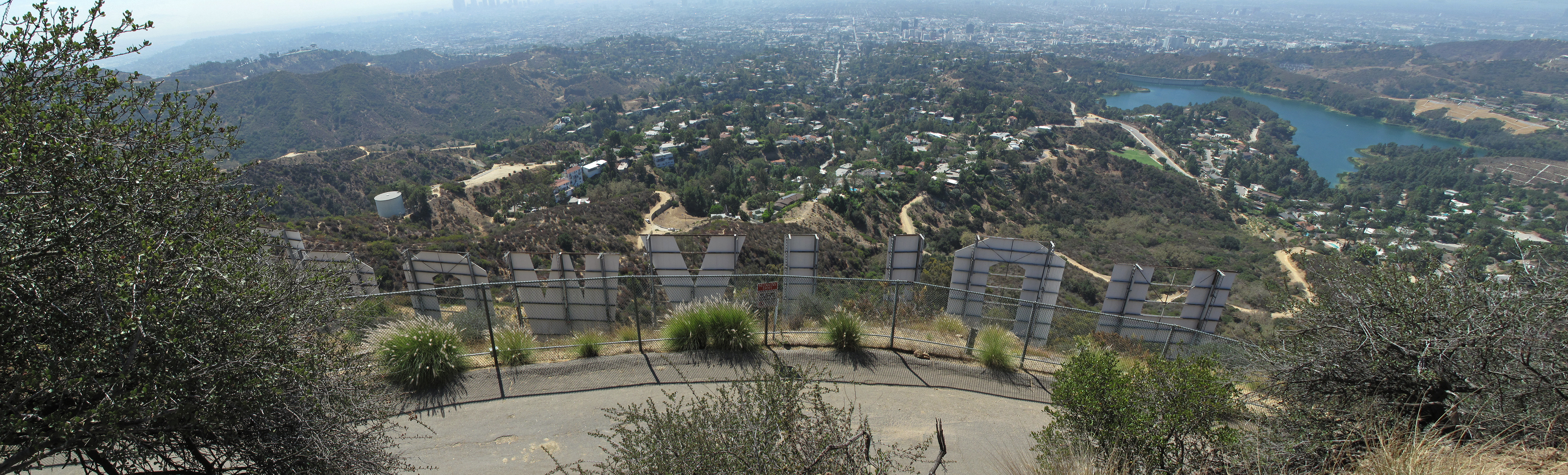 The back of the Hollywood Sign is visible from Mount Lee, in Griffith Park. The main part of Griffith Park is visible to the left. The Los Angeles neighborhood of Beachwood Canyon, Los Angeles is below. To the right is the Hollywood Reservoir. This is a three-image panorama.